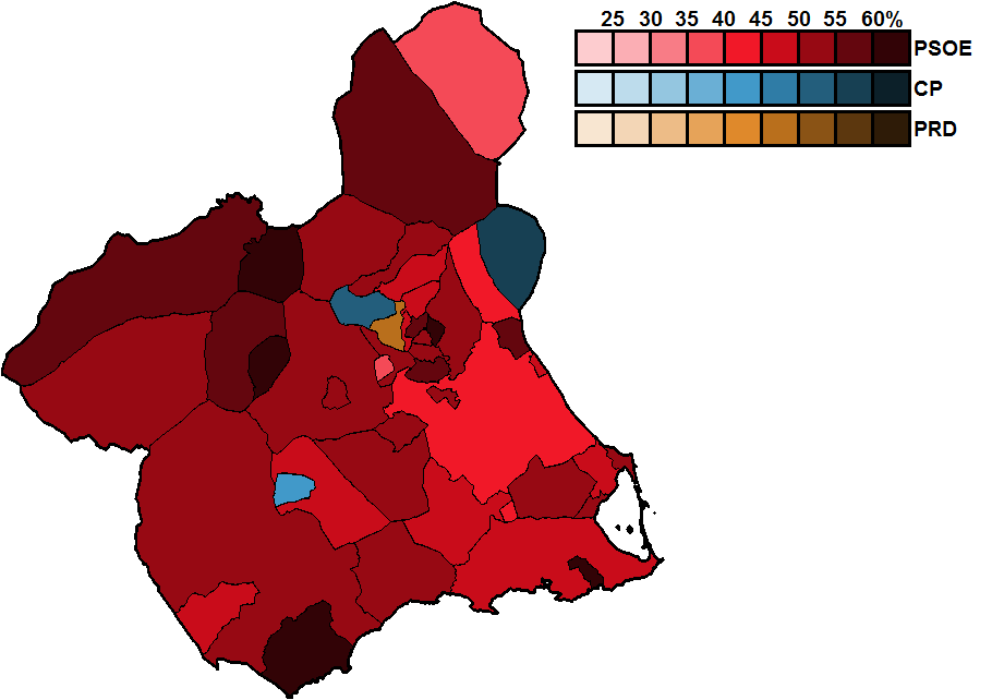 Most-voted party in Murcia municipalities, showing vote share obtained, in the Spanish general election, 1986.